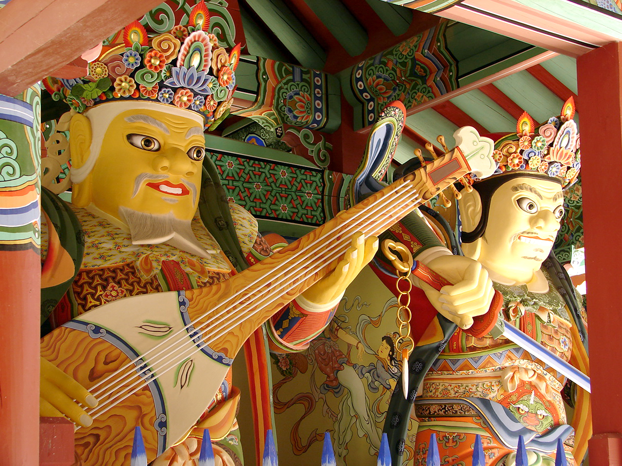 Ssangbongsa, or Ssangbong Temple (Ssang means 'twin' and Bong means 'peak' ), derives its name from the pair of twin peaks on the mountain behind this Buddhist temple. Ssangbongsa in located in Hwasun County, South Jeolla Province, South Korea. Ssangbongsa was built by Zen Priest Cheolgam in 868 during the Unified Silla Period.